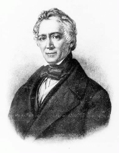 Friedrich Ludwig Georg von Raumer (* 14th May 1781 in Wörlitz; † 14th June 1873 in Berlin)